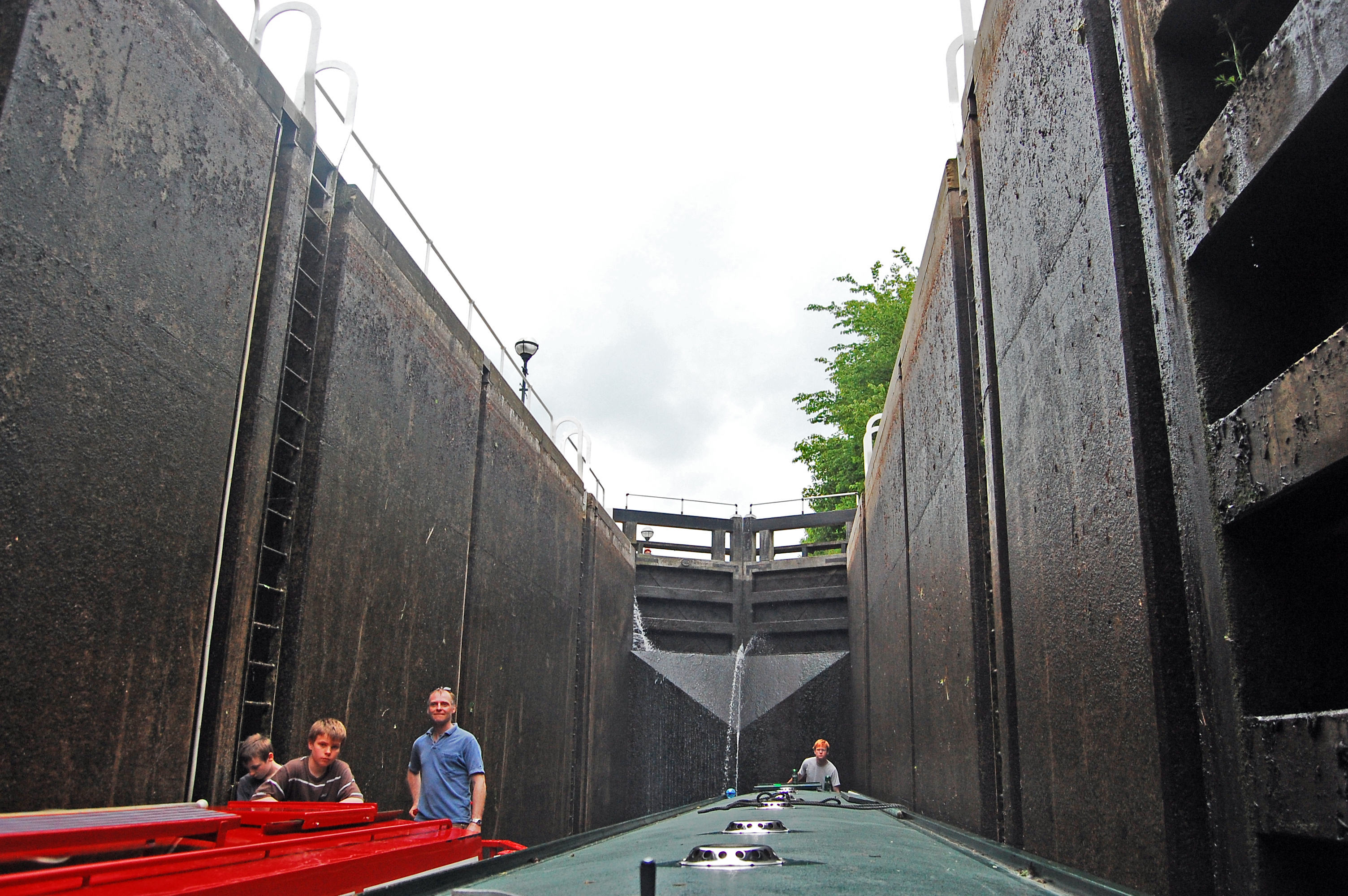 Two narrowboats navigate Tuel Lane lock, in Sowerby Bridge, on the Rochdale Canal. It is the deepest canal lock in the United Kingdom at a depth of nearly 20 feet.